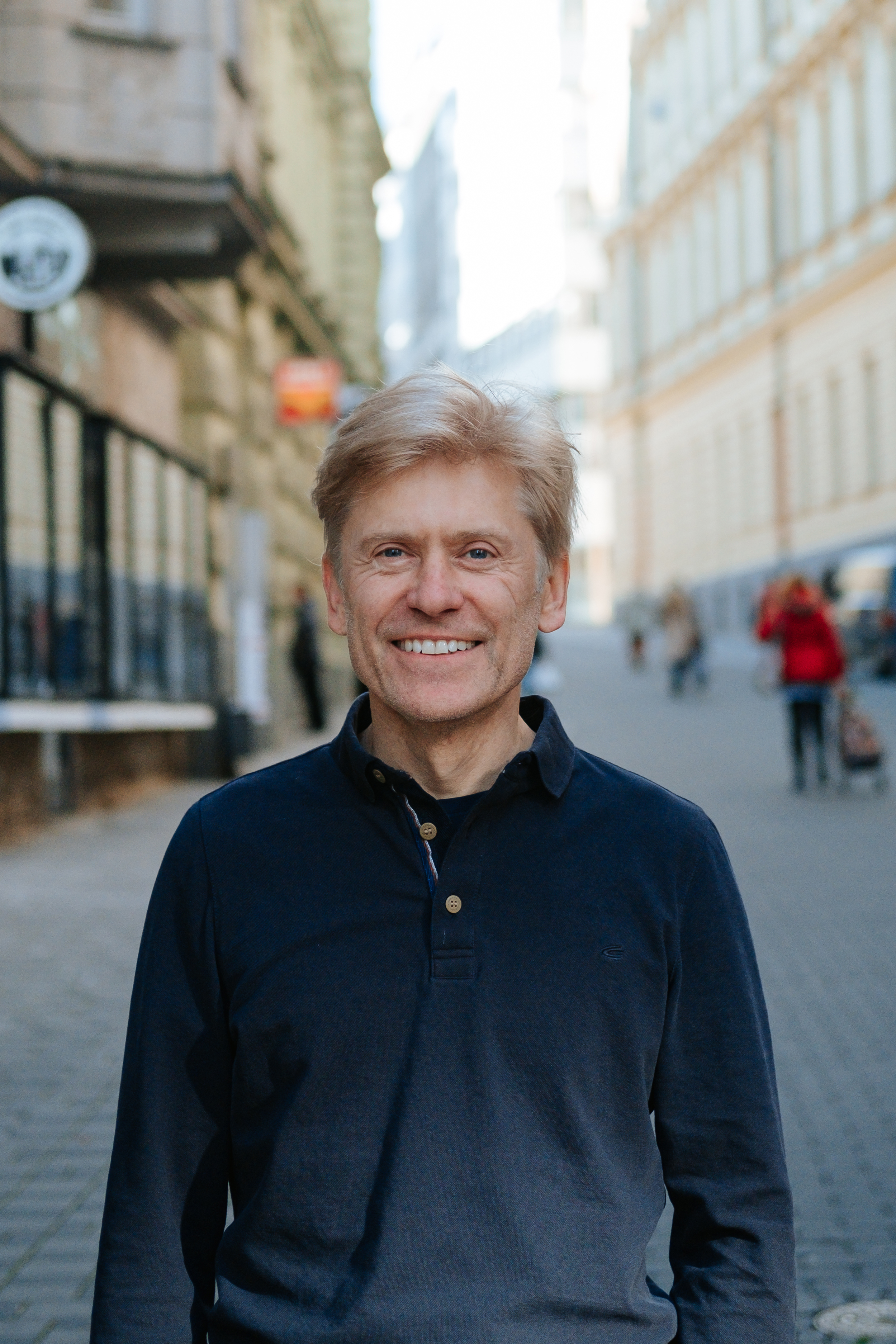 The main city architect of Brno, in function from 2016.